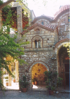 Church in Mystras